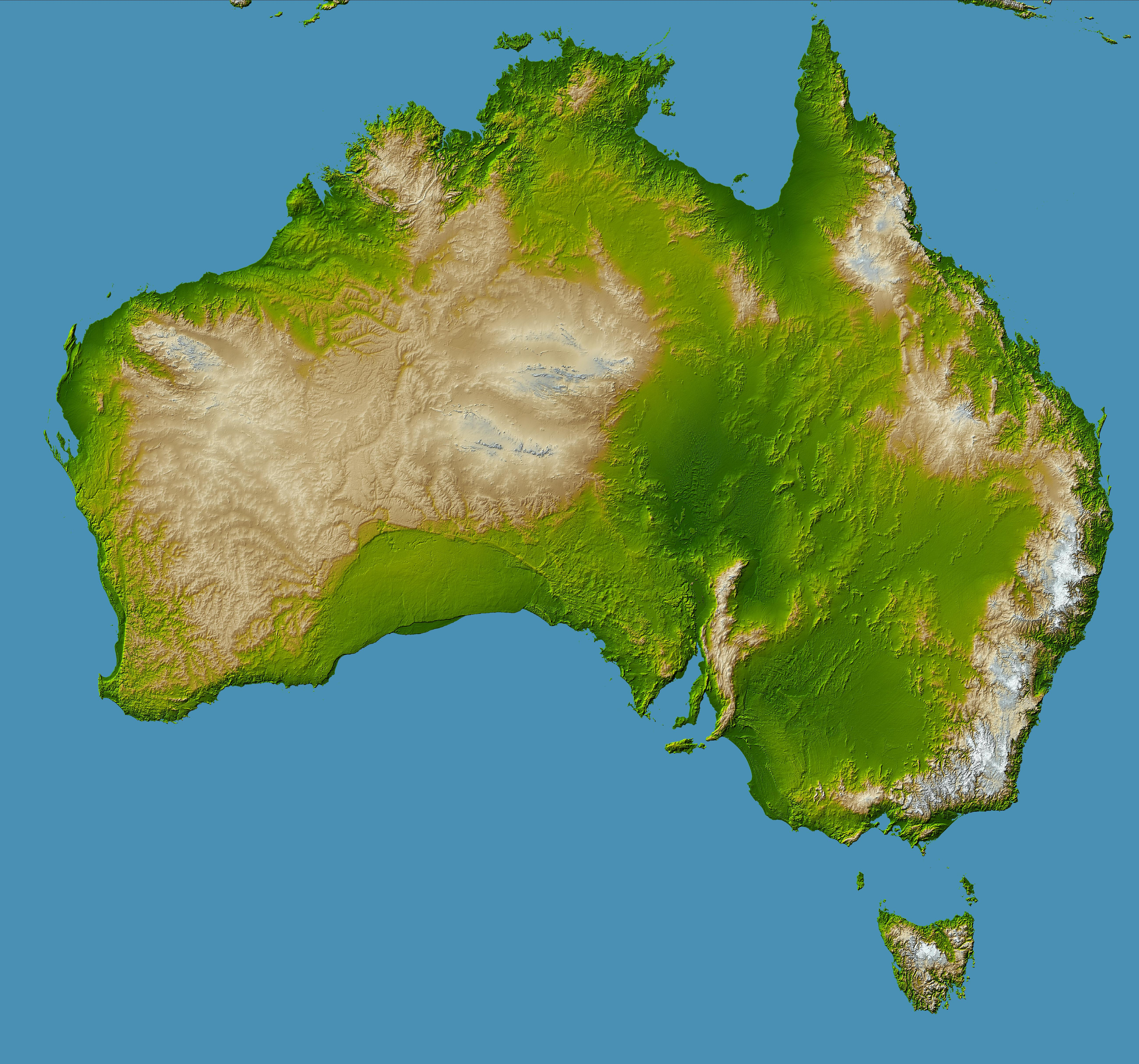 Topography of Australia. PIA06665: Australia, Shaded Relief and Colored Height